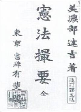 Kenpō Teiō by Tatsukichi Minobe (1873–1948)